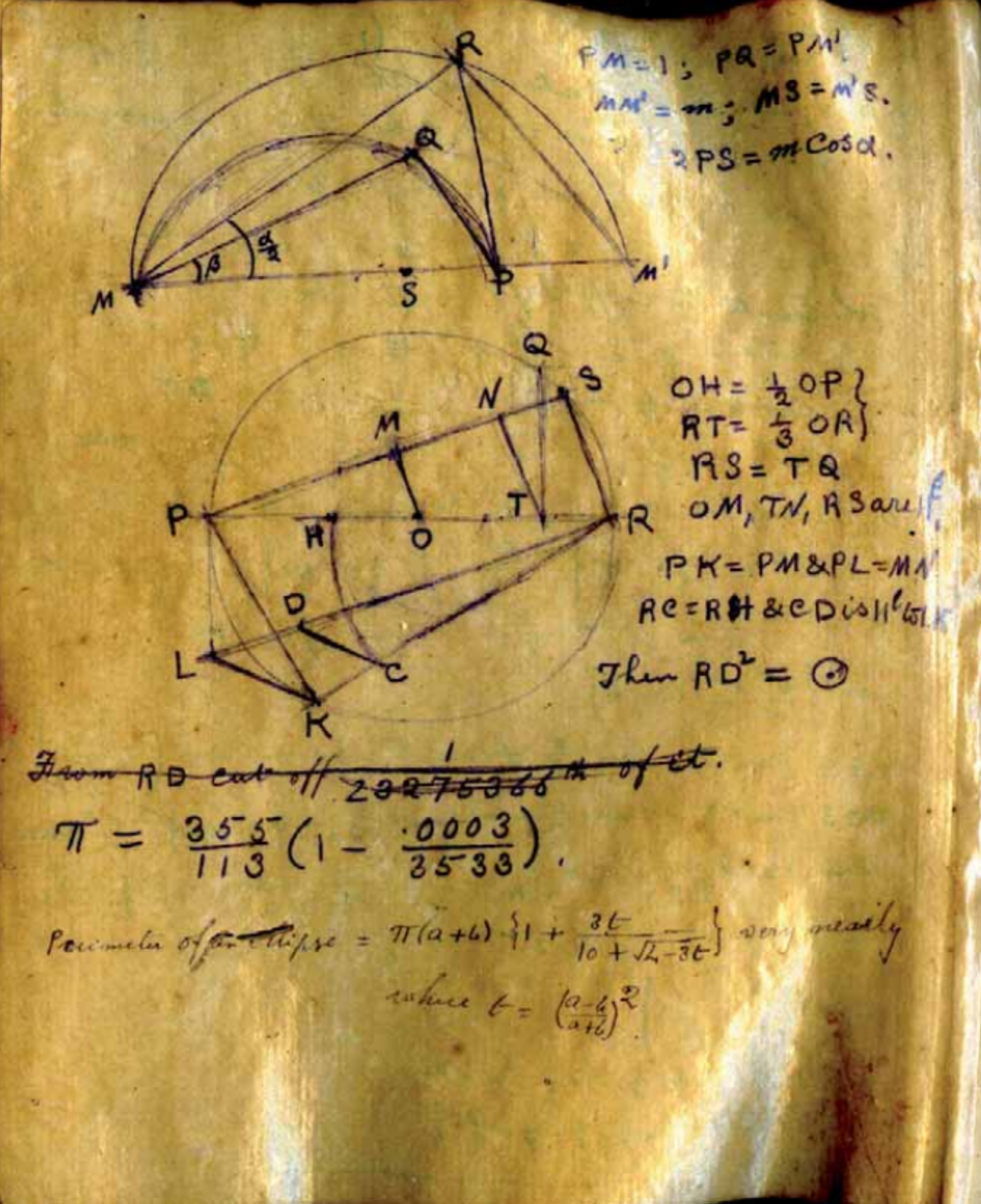 Squaring the circle of Srinivasa Ramanujan, of the MANUSCRIPT BOOK 1 OF SRINIVASA RAMANUJAN page 54